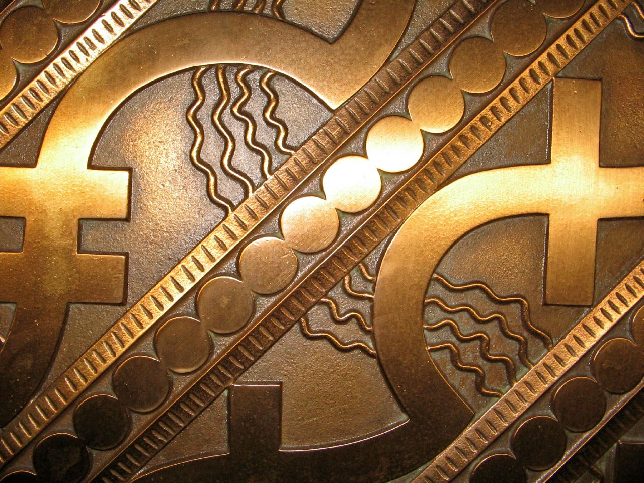 Detail from an Art Deco elevator door in the lobby of the Hotel Allegro in Chicago